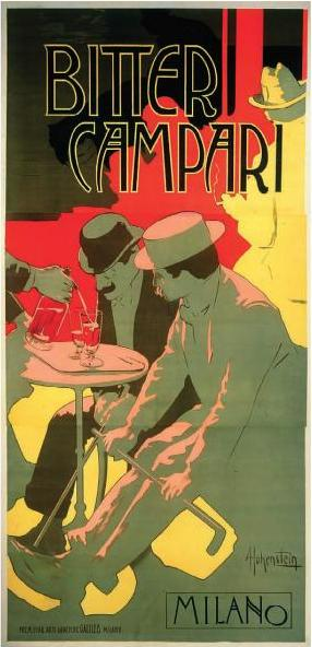 Campari poster (1901)